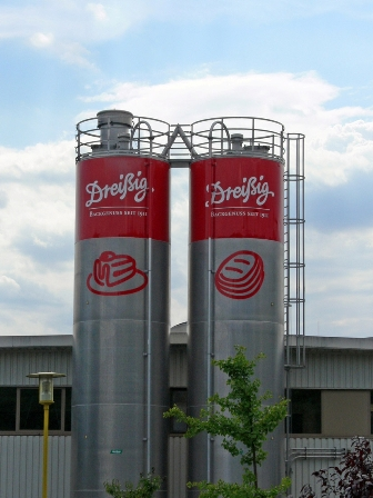 Modern production facility of Bäckerei Dreißig